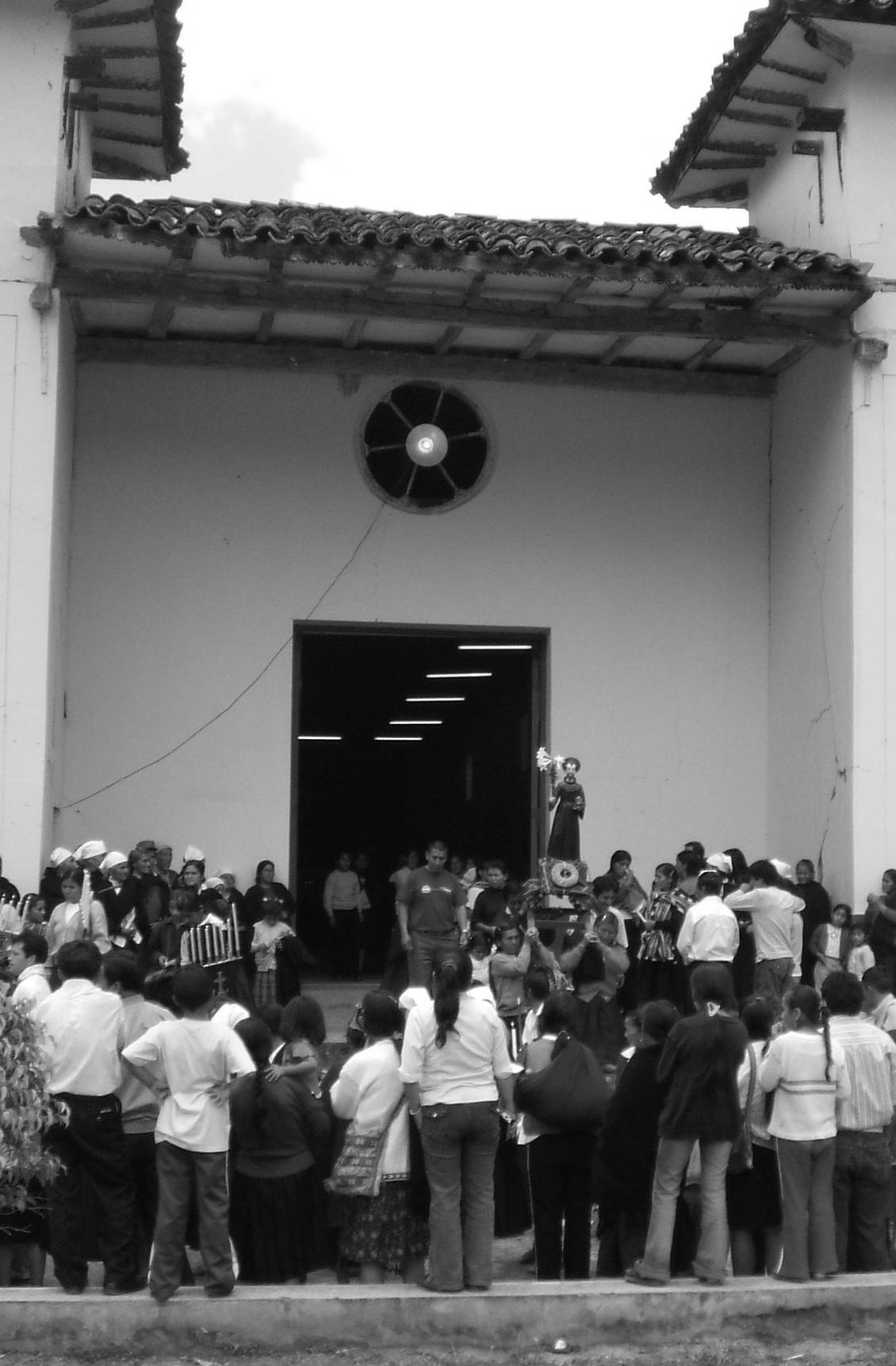 Church of Colcamar